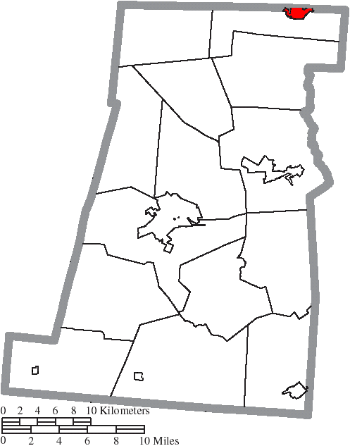 Map of the municipal and township boundaries of Madison County, Ohio, United States, as of the 2000 census, with the location of the village of Plain City highlighted. Township borders are shown only in unincorporated areas in order to differentiate incorporated and unincorporated areas more clearly.